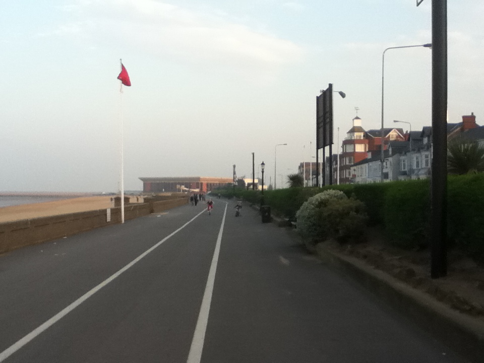 The seafront on Kingsway, Cleethorpes.